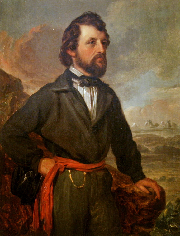 Picture of John Charles Frémont